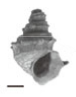 Black-ang white photo of an apertural view of the shell of Margarya melanioides (IOZ-FG164208), Lake Er-hai. Scale bar is 1 cm.